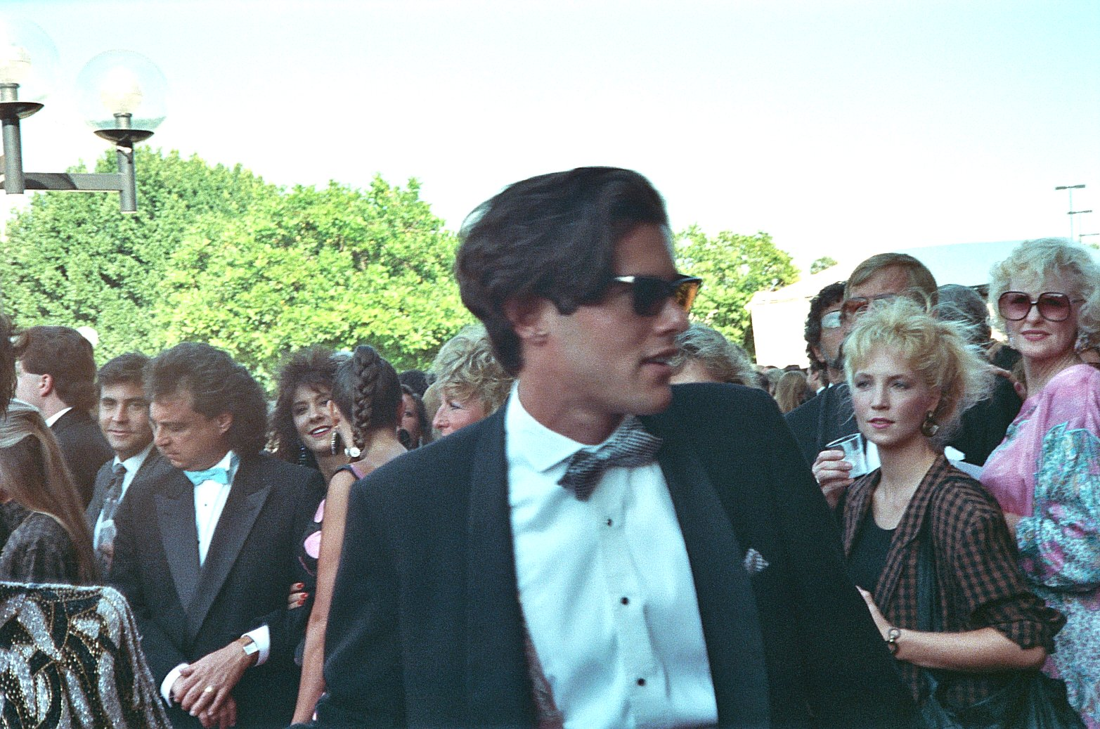 1990 Emmy Awards NOTE: Permission granted to copy, publish, broadcast or post any of my photos, but please credit "photo by Alan Light" if you can. Thanks. Scanned from the original 35MM film negative.